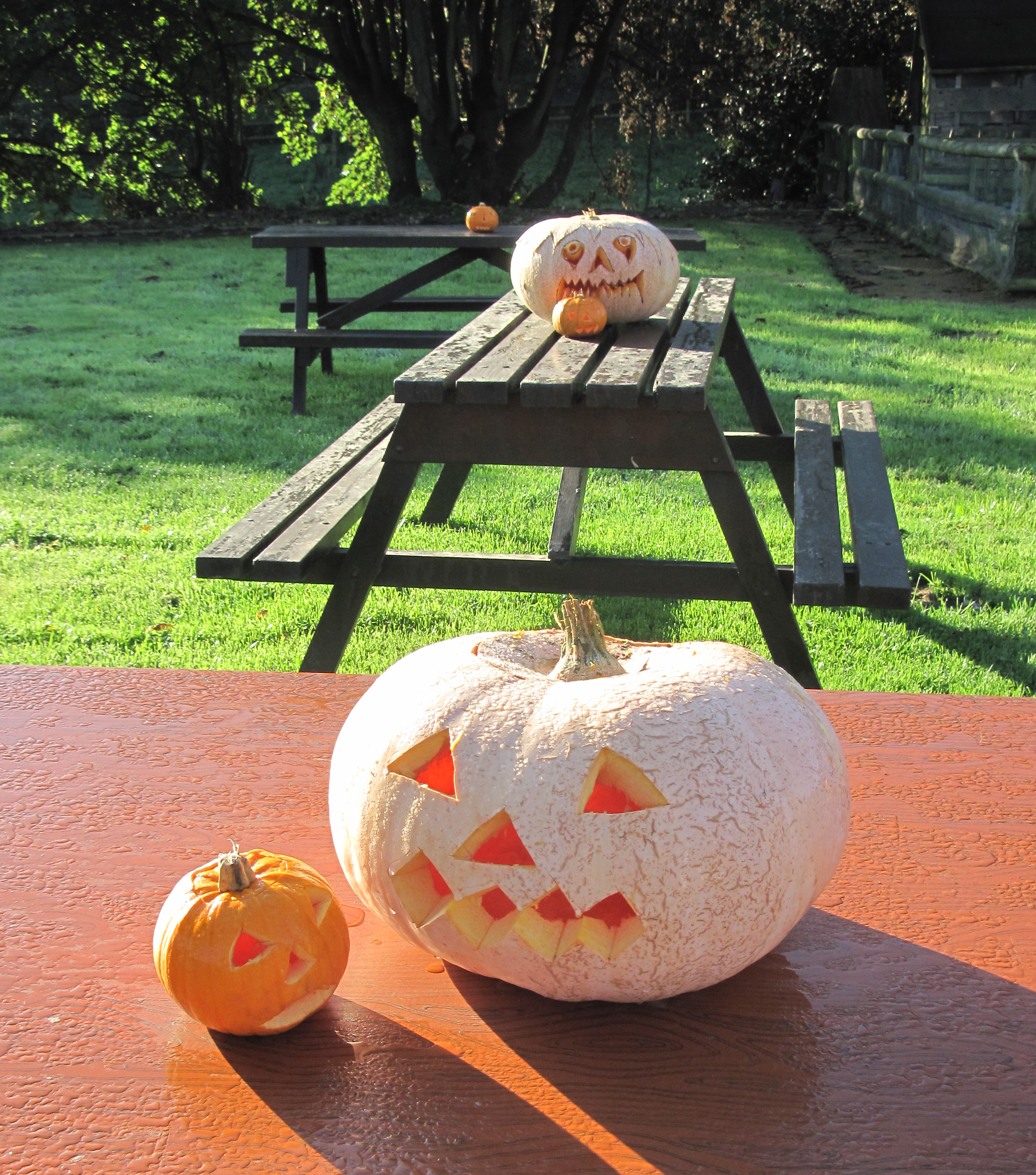 Jack-o'-lanterns at Hamptonne, Jersey, 2011